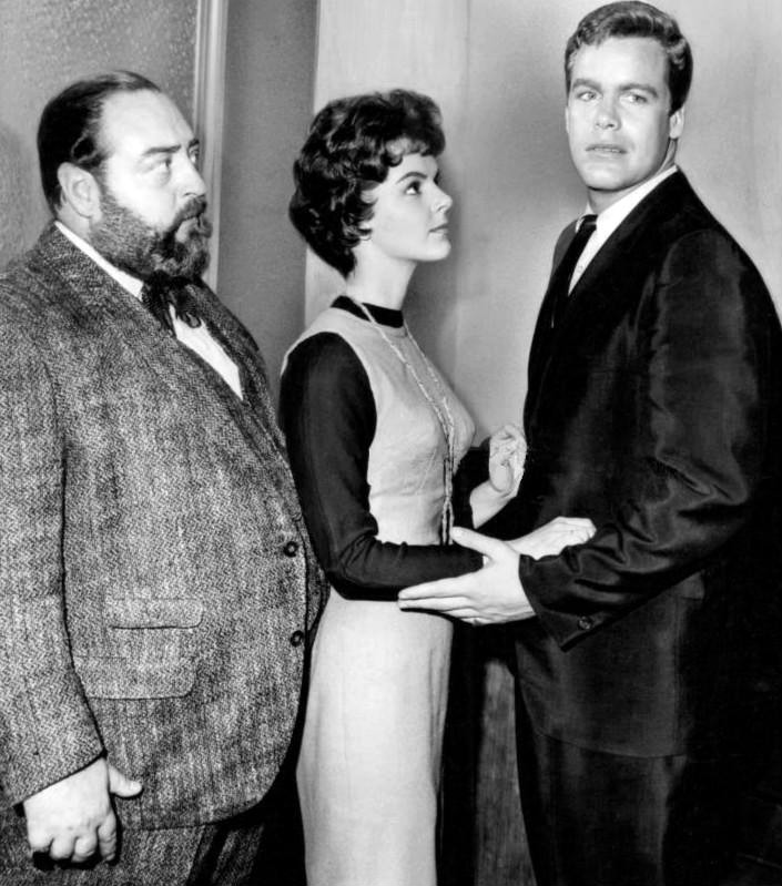 Photo of Sebastian Cabot, Carolyn Craig, and Doug McClure from the television program Checkmate (1962).